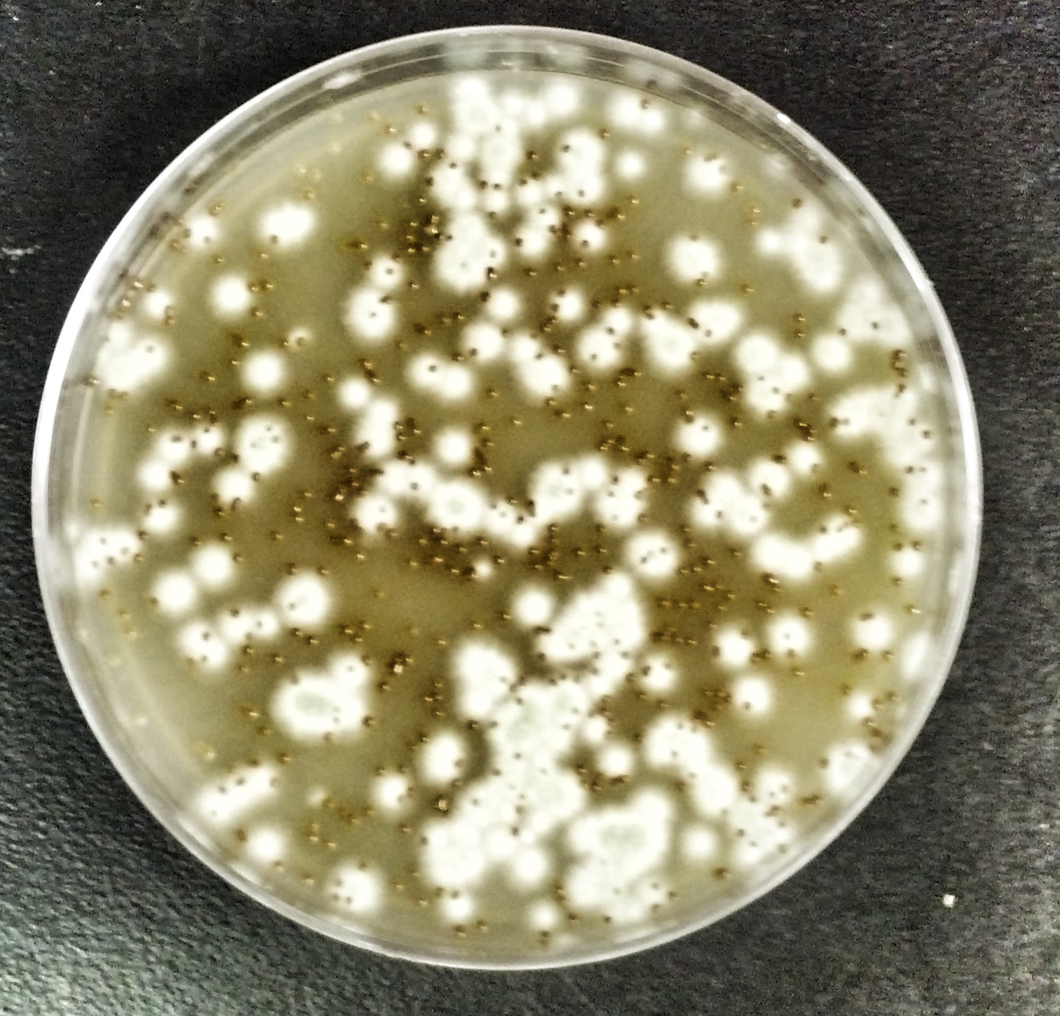 Cryptococcus soil isolation. Pigmented (melanized) yeast colonies of Cryptococcus gattii on a Niger seed agar petri plate.